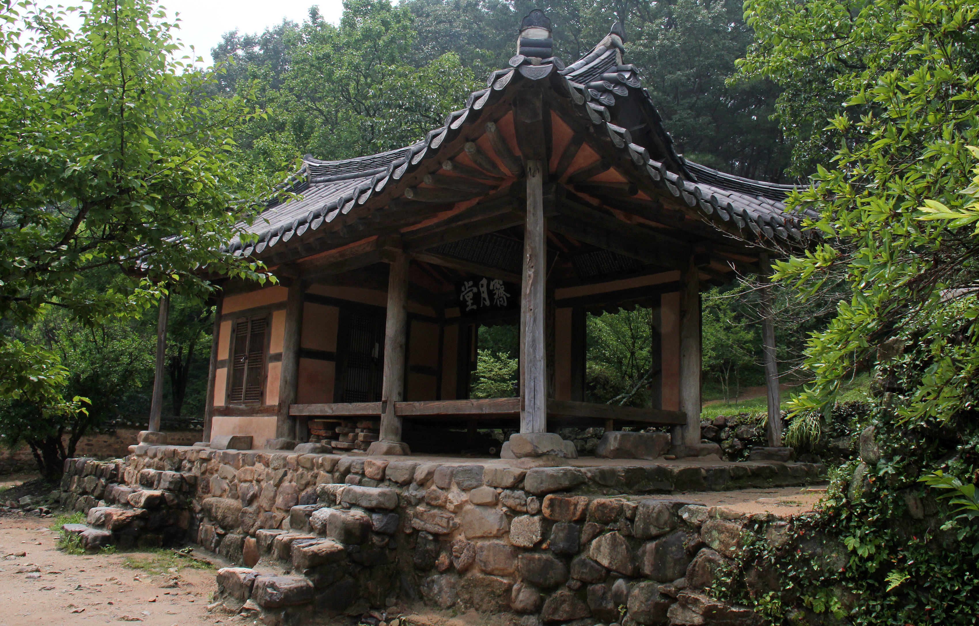 Soswaewon Garden (Traditional Korean Garden) Damyang-gun, Korea Ministry of Culture, Sports, and Tourism Korea Culture and Information Service (KOCIS Photo / Han Jeon) 담양 소쇄원 2012.07.14. 문화체육관광부 해외문화홍보원